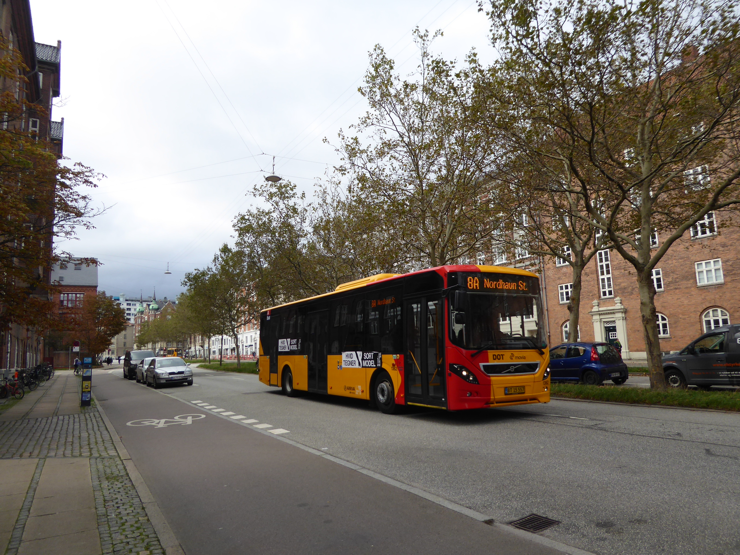 Movia bus line 8A on Strandboulevarden in Østerbro in Copenhagen.